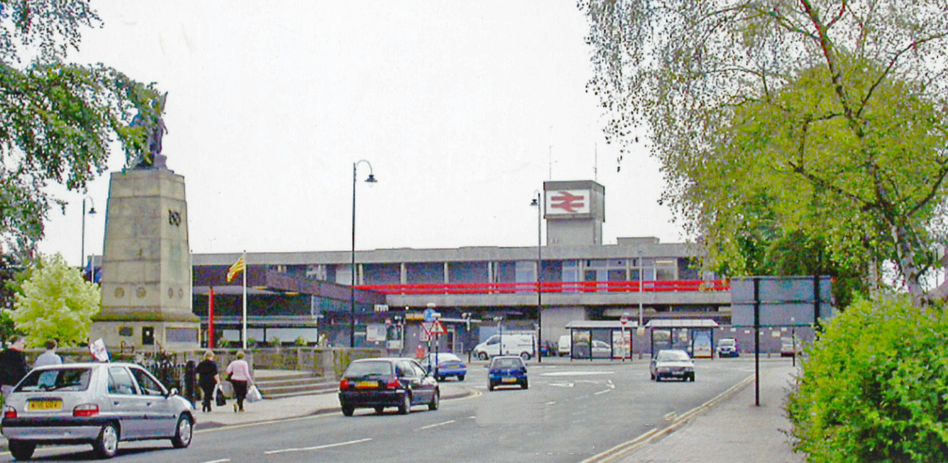 Stafford station entrance, 2006 View SW from Station Road; War Memorial and Victoria Park on left. The station was completely rebuilt in 1966 for the electrification of the WCML.